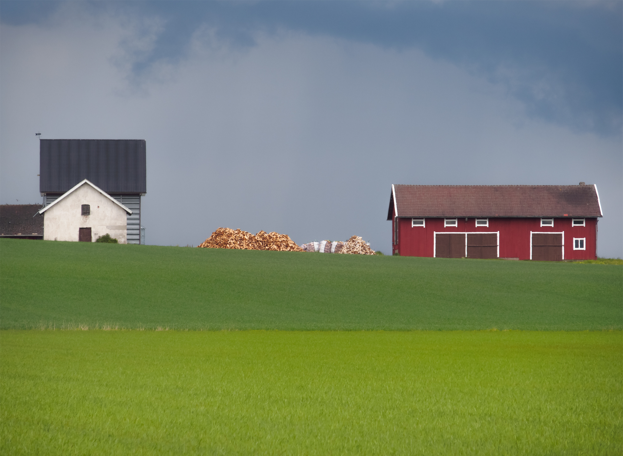 Farm buildings on a ridge in Kankare village, Halikko, Salo, Finland, summer 2014.